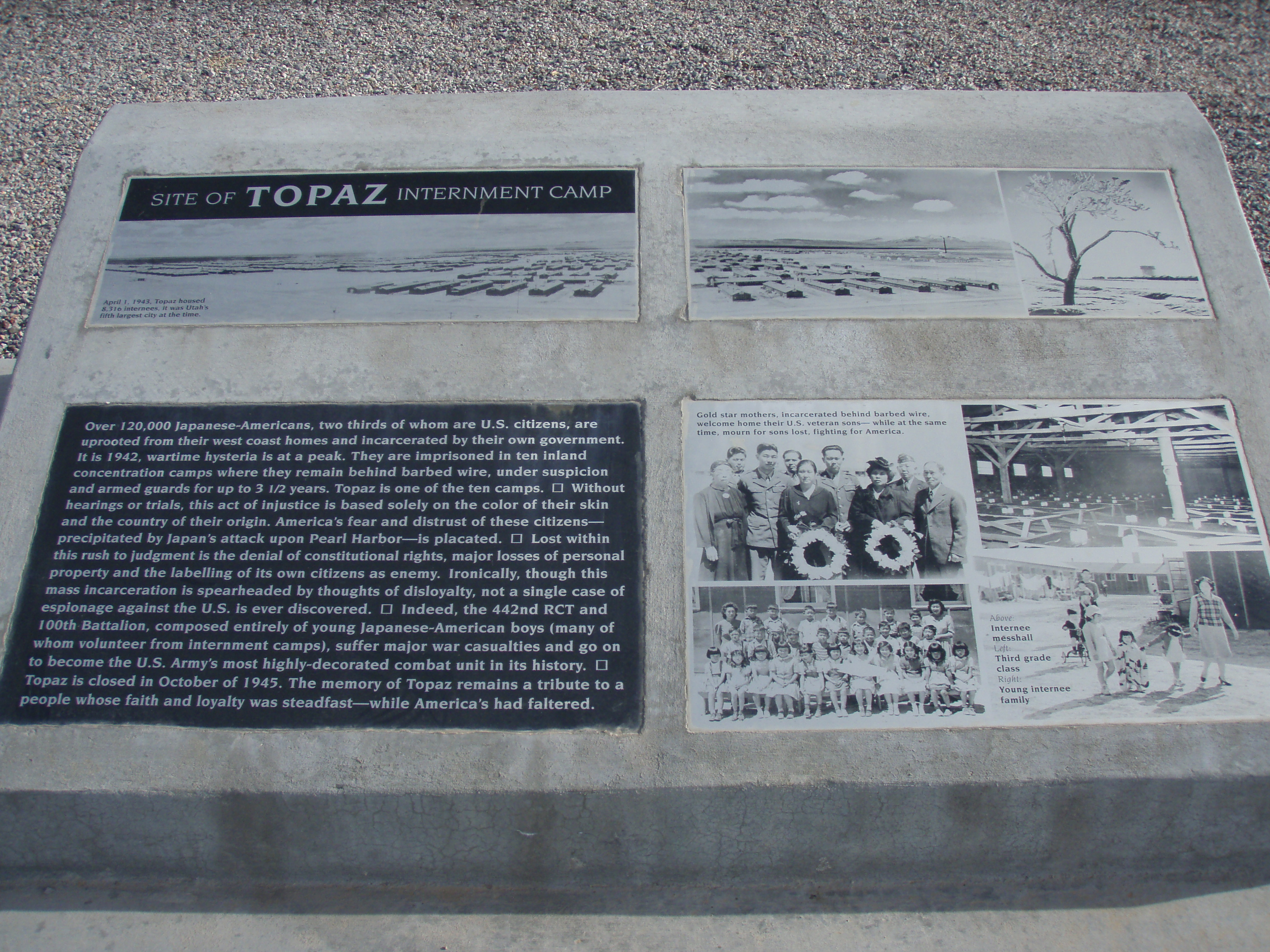 Right-hand plaque from memorial at Topaz Japanese Internment camp outside Delta, Utah